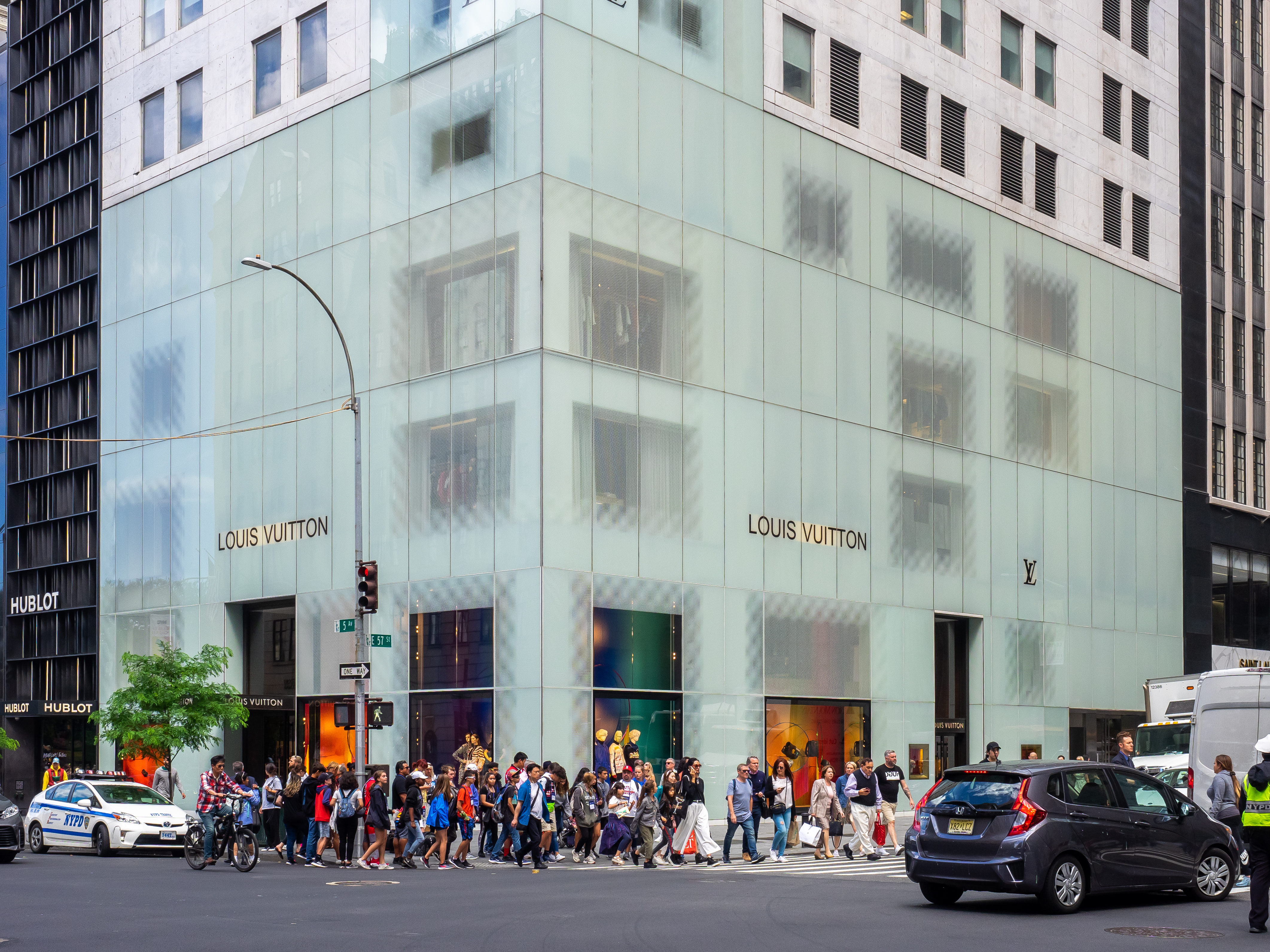 5th Ave, Midtown, NYC